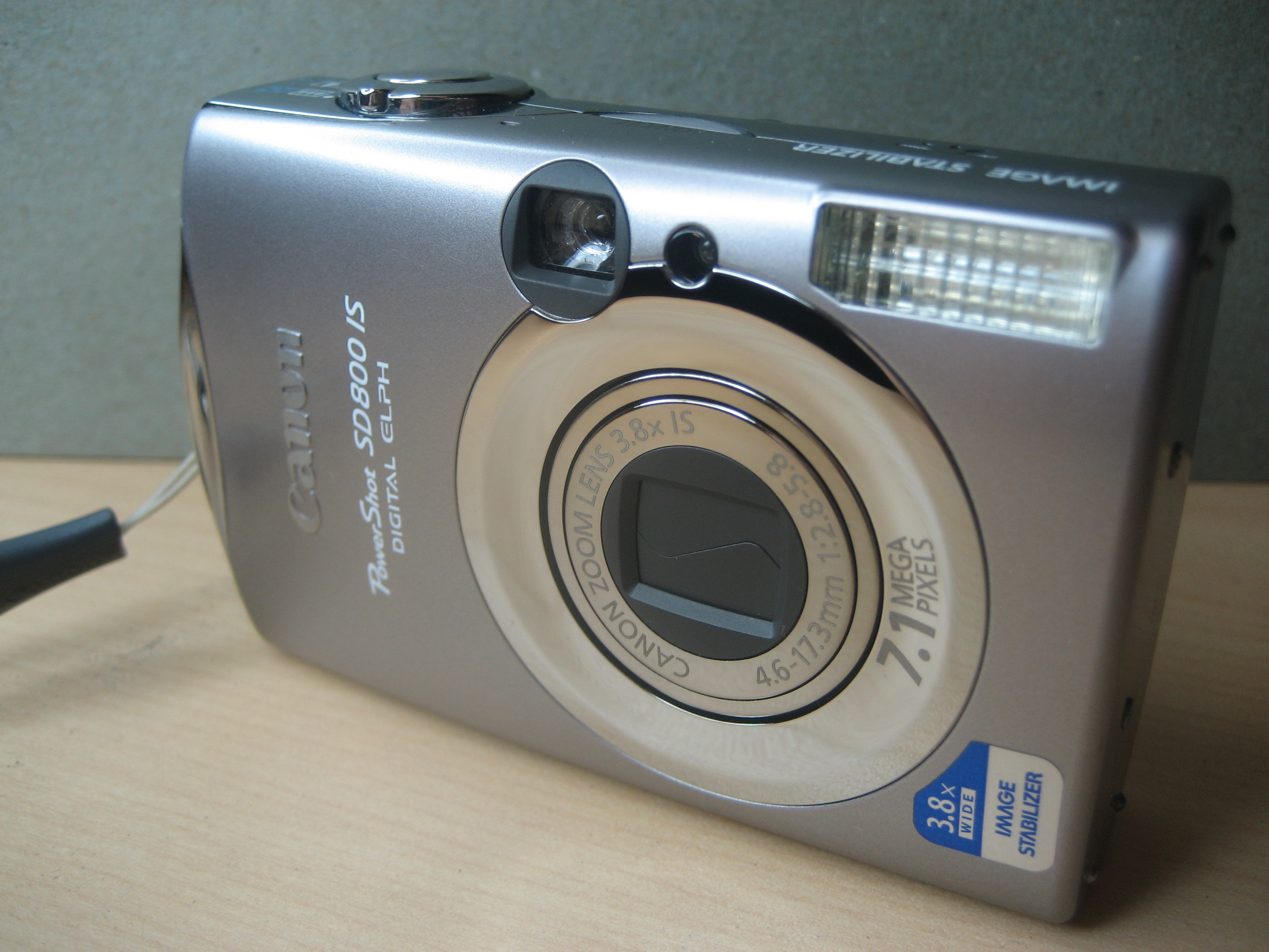 Photo of Canon PowerShot SD800IS camera. Taken with a friend's Canon PowerShot SD630.